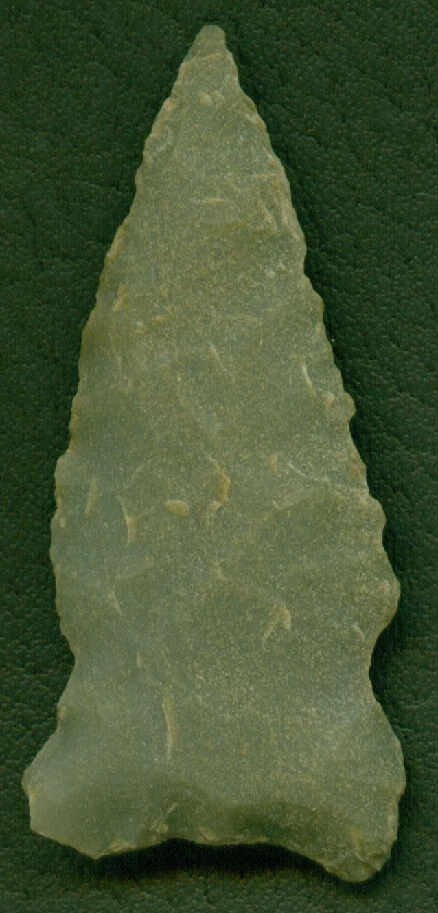 Arrowhead that was found in Arkansas